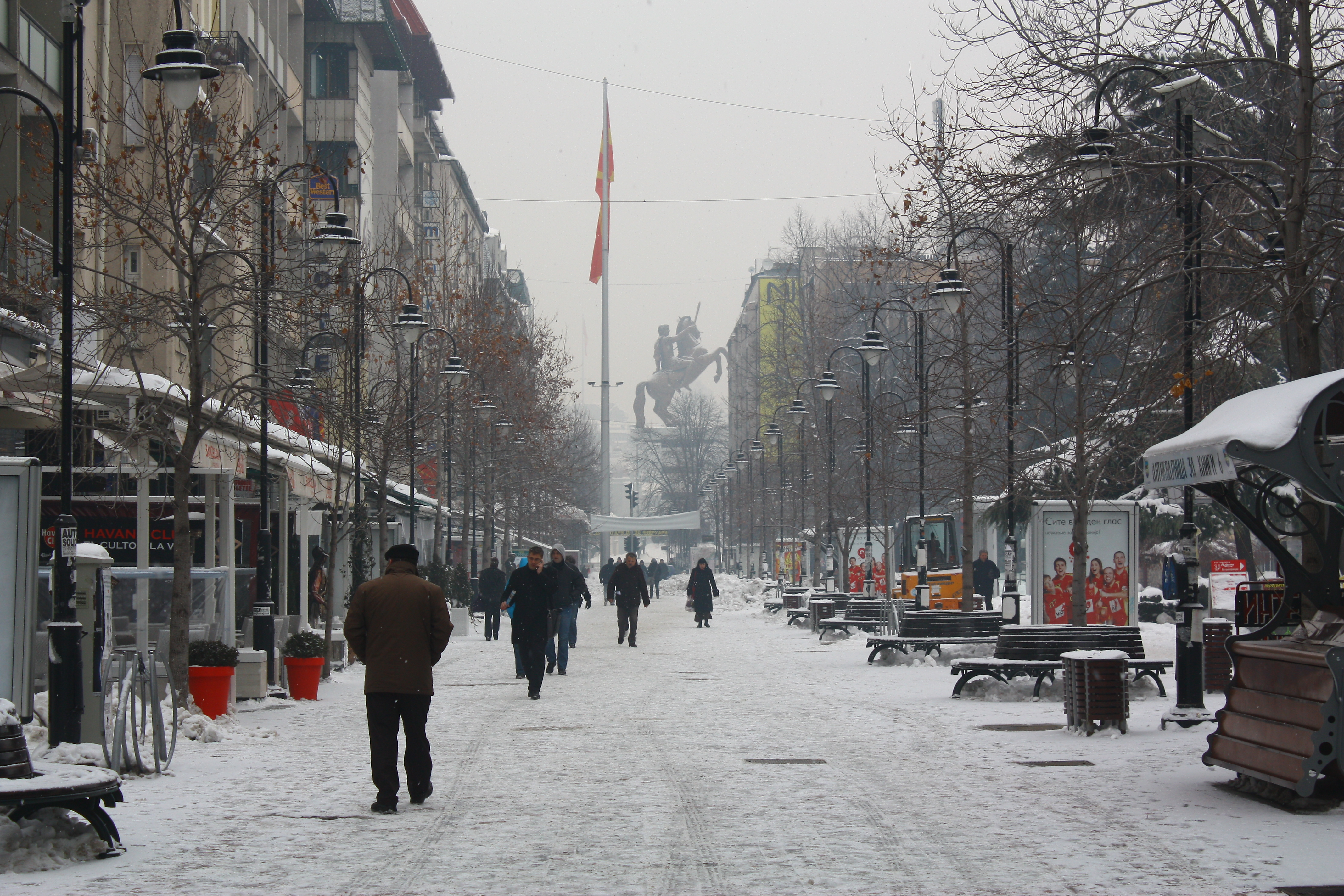 Skopje, Macedonia